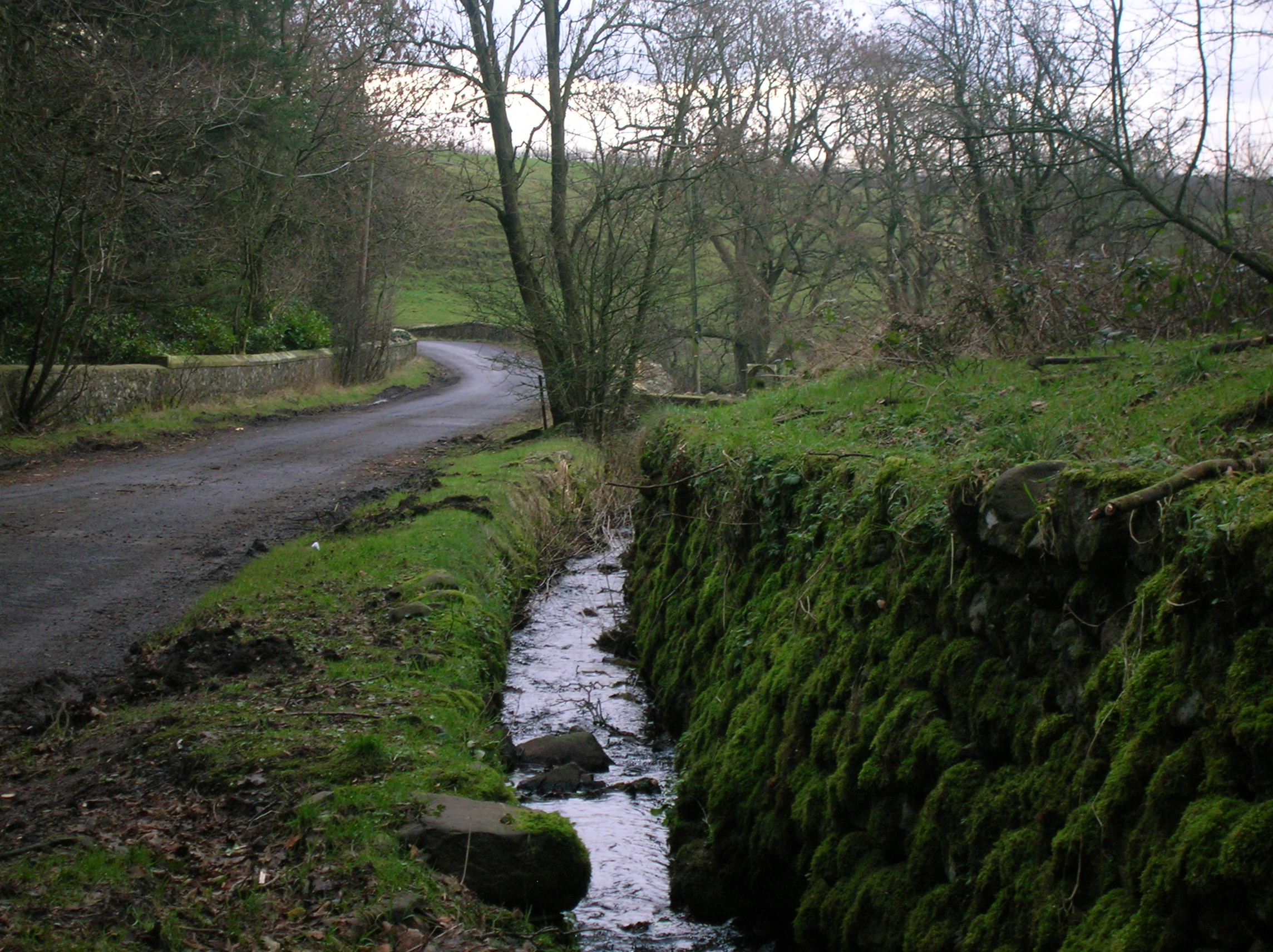 The Chapel Burn near its confluence with the Annick Water near Chapeltoun House in East Ayrshire. January 2007.